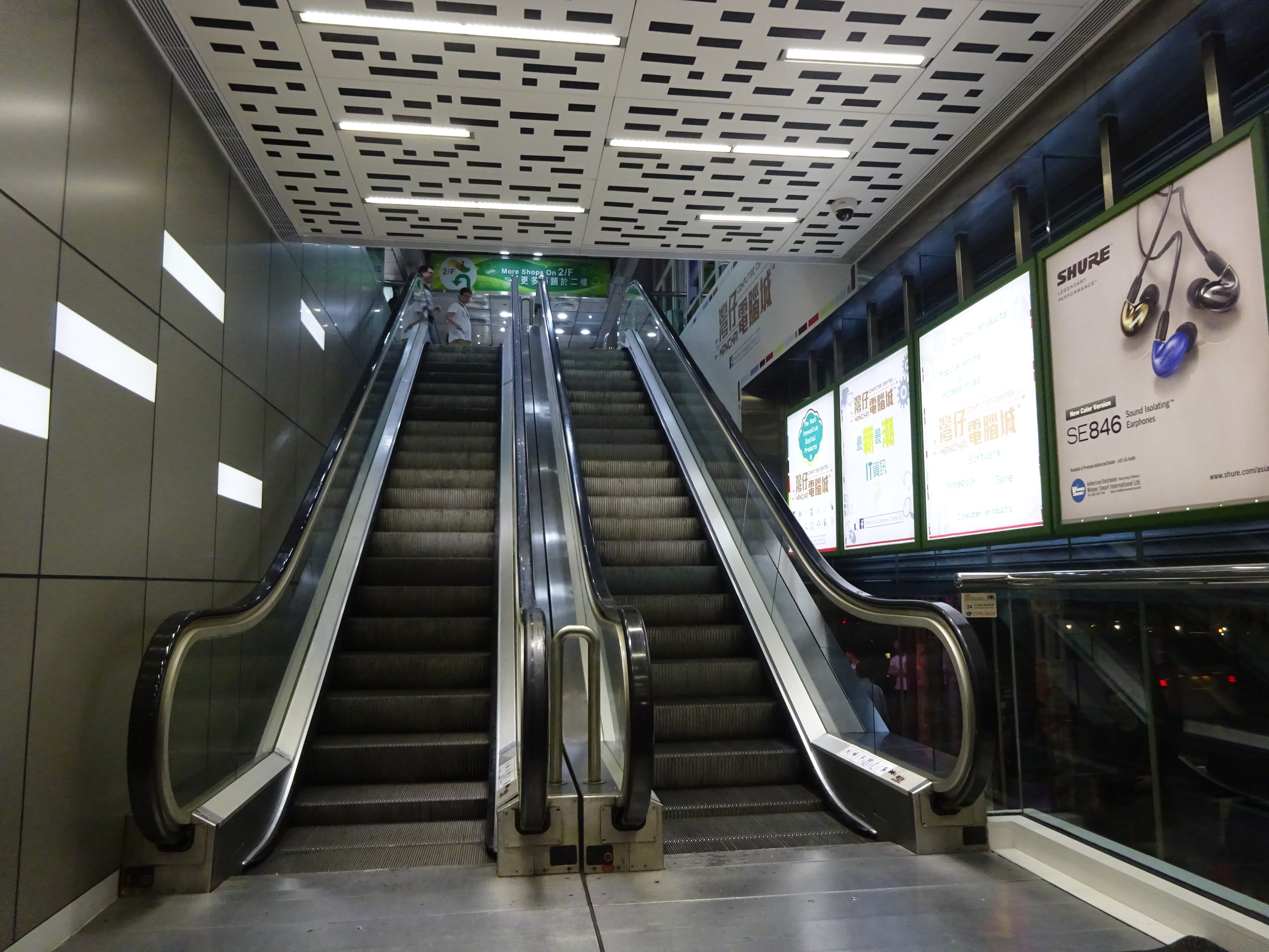 HK 灣仔電腦城 Wanchai Computer Centre mall interior escalators CNIM night in May 2016 HK 灣仔電腦城 Wanchai Computer Centre mall interior night in May 2016